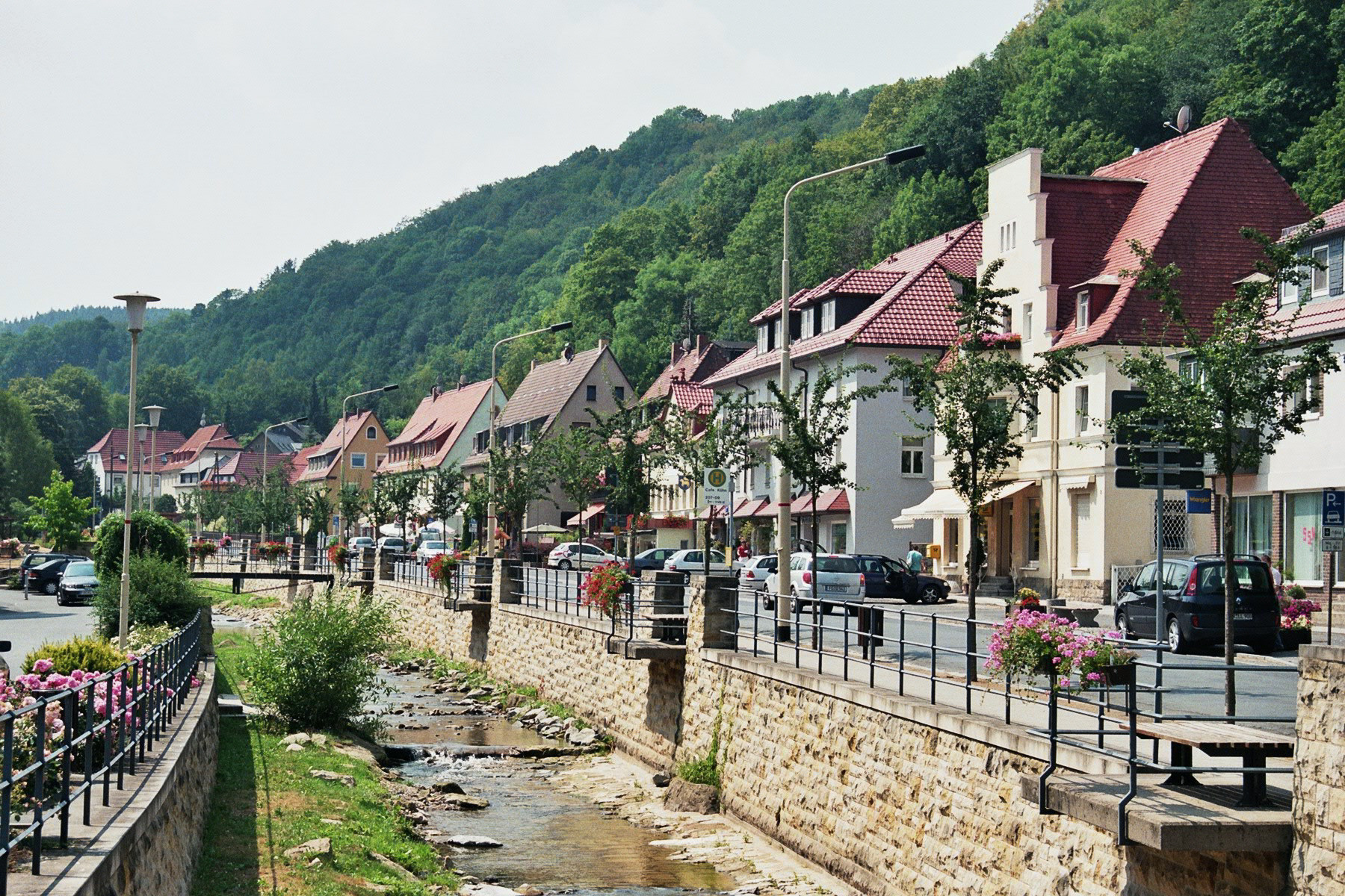 This image shows the main street and the Gottleuba river in Berggießhübel in Saxony, Germany.